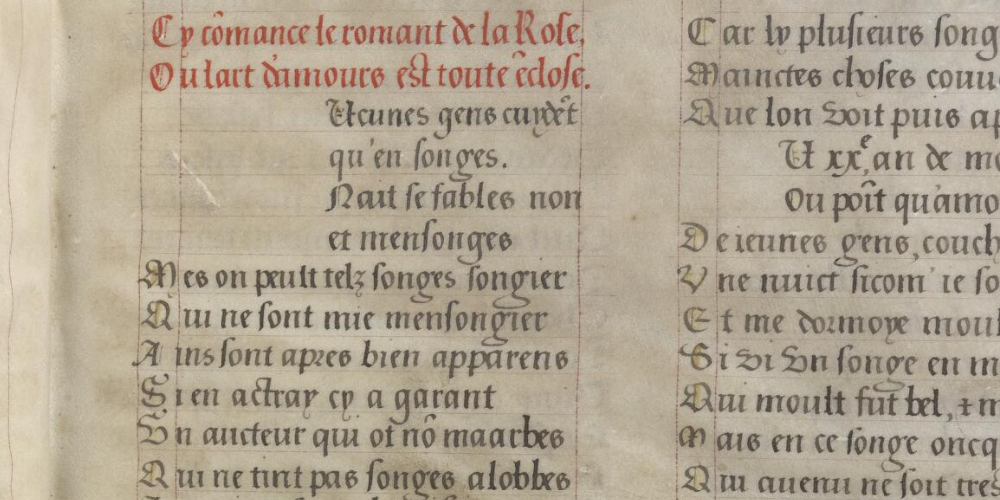 Faithful reproduction with no additional information of the National Library of Wales manuscript of 'Le Romant de la Rose'. 14th century, author and scribe both unknown.